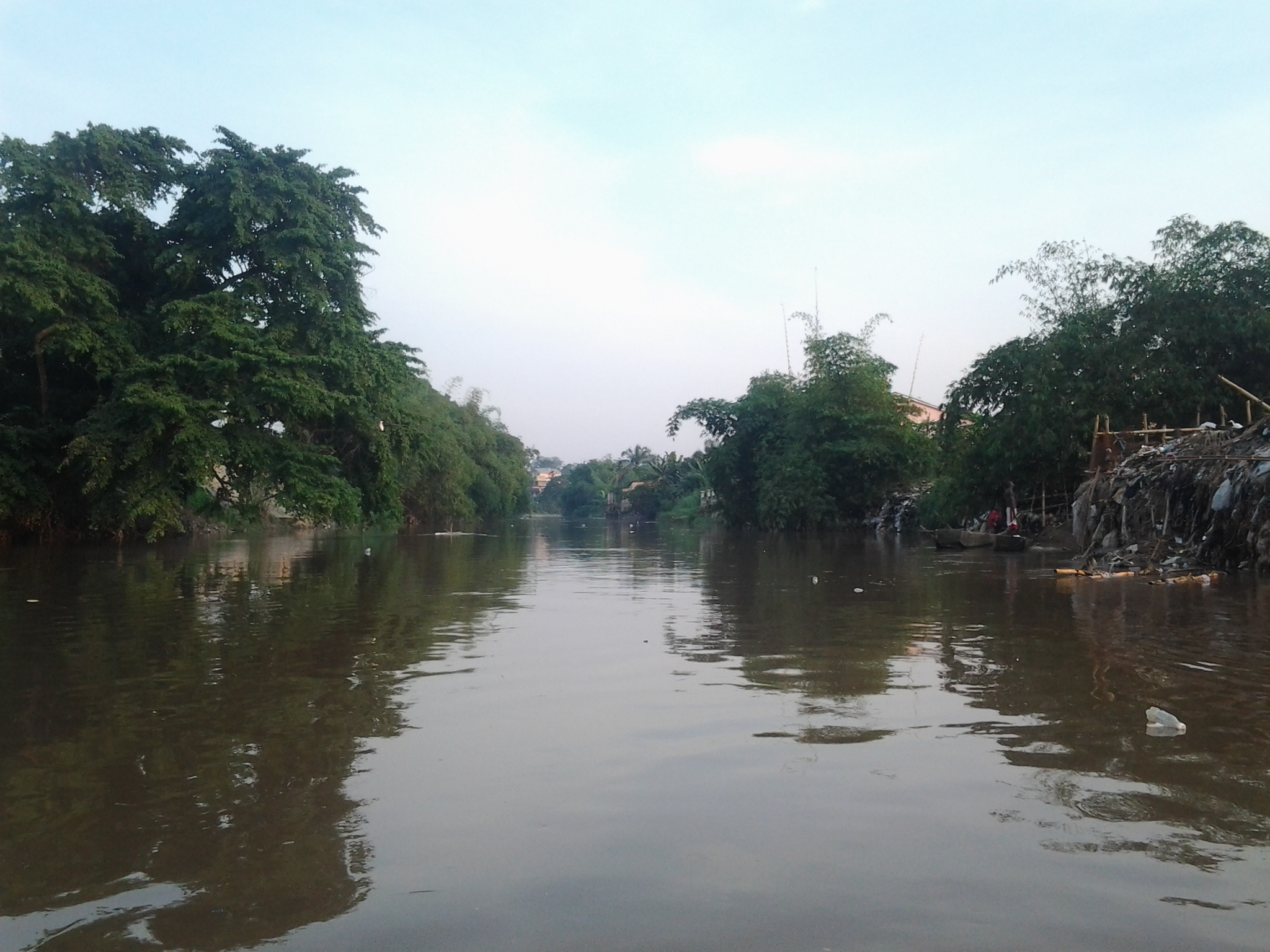 The River Ndijli in Democratic Republic of Congo